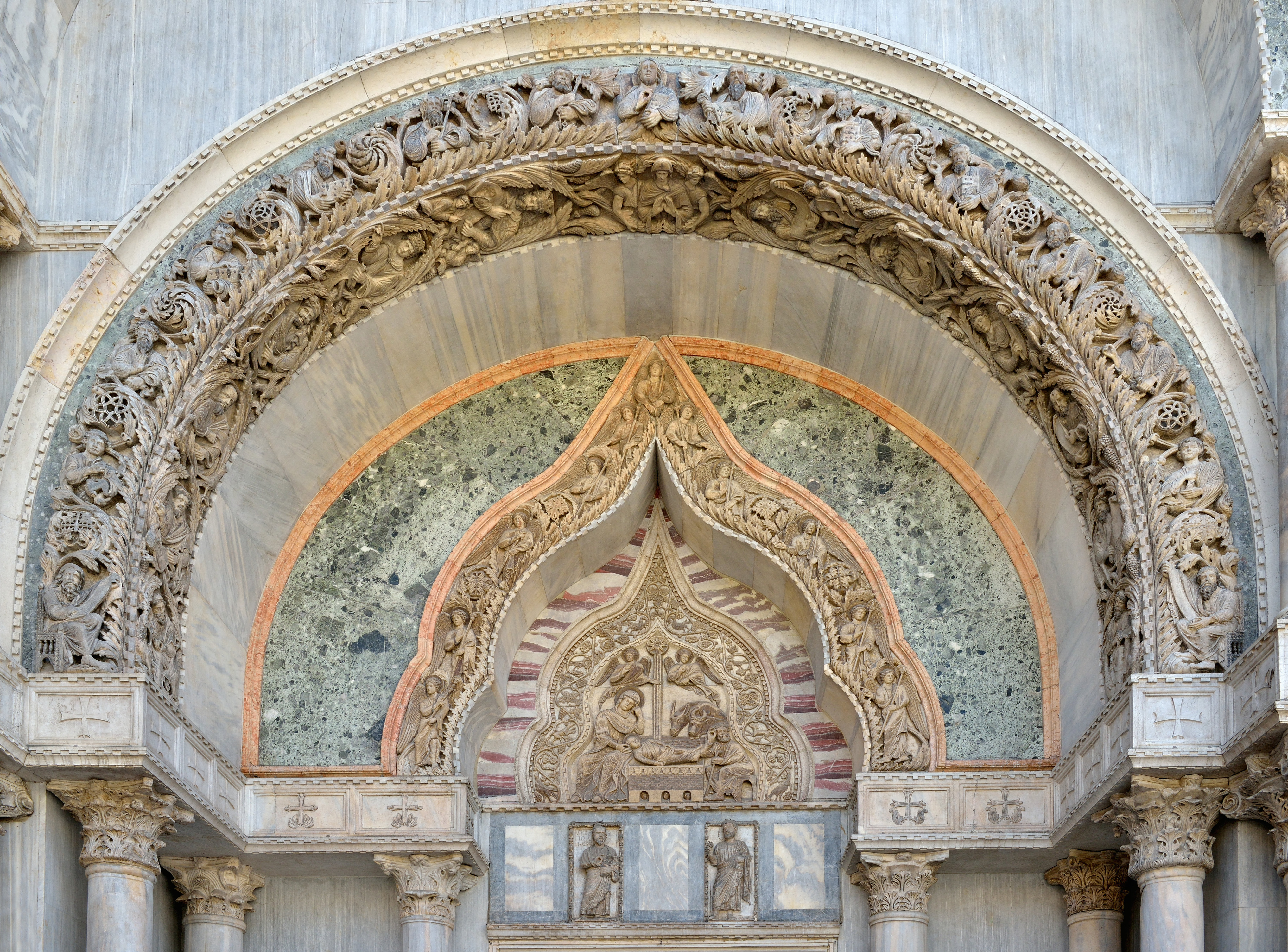 North gate with Nativity of the Saint Mark's Basilica in Venice.